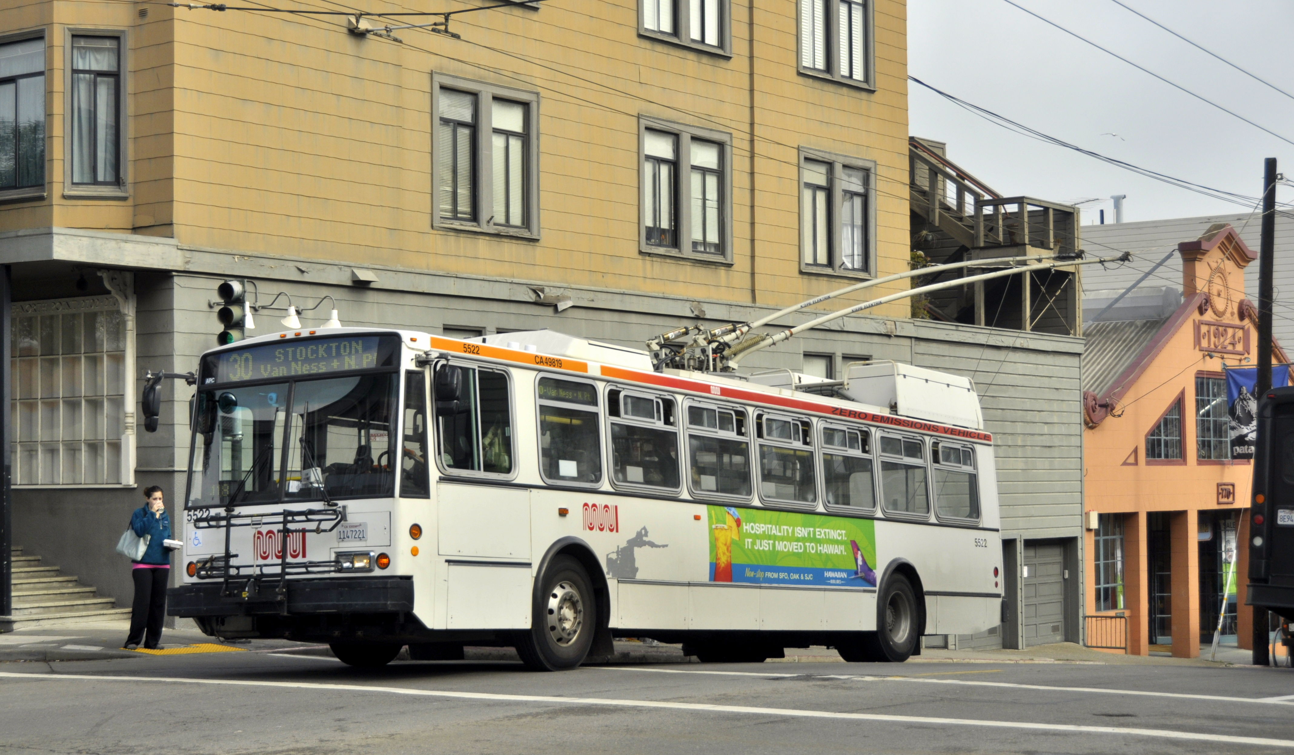 MUNI 5522 runs on Line 30 on North Point Street